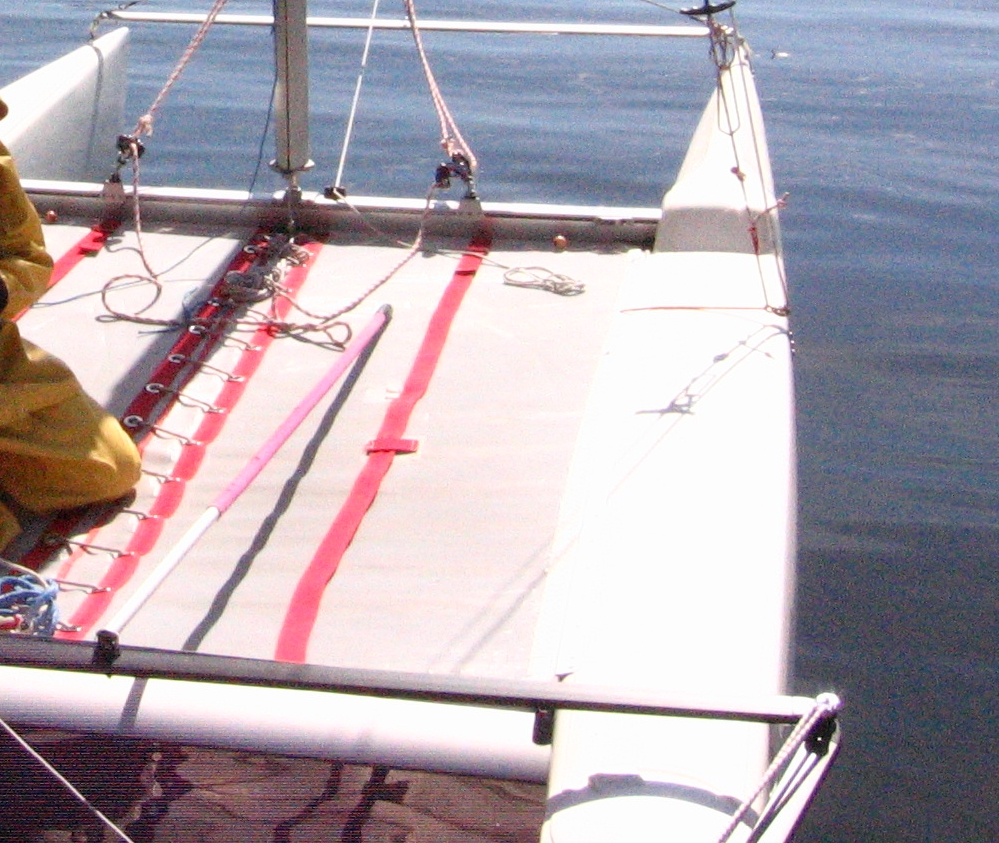 Trampoline of a sports catamaran